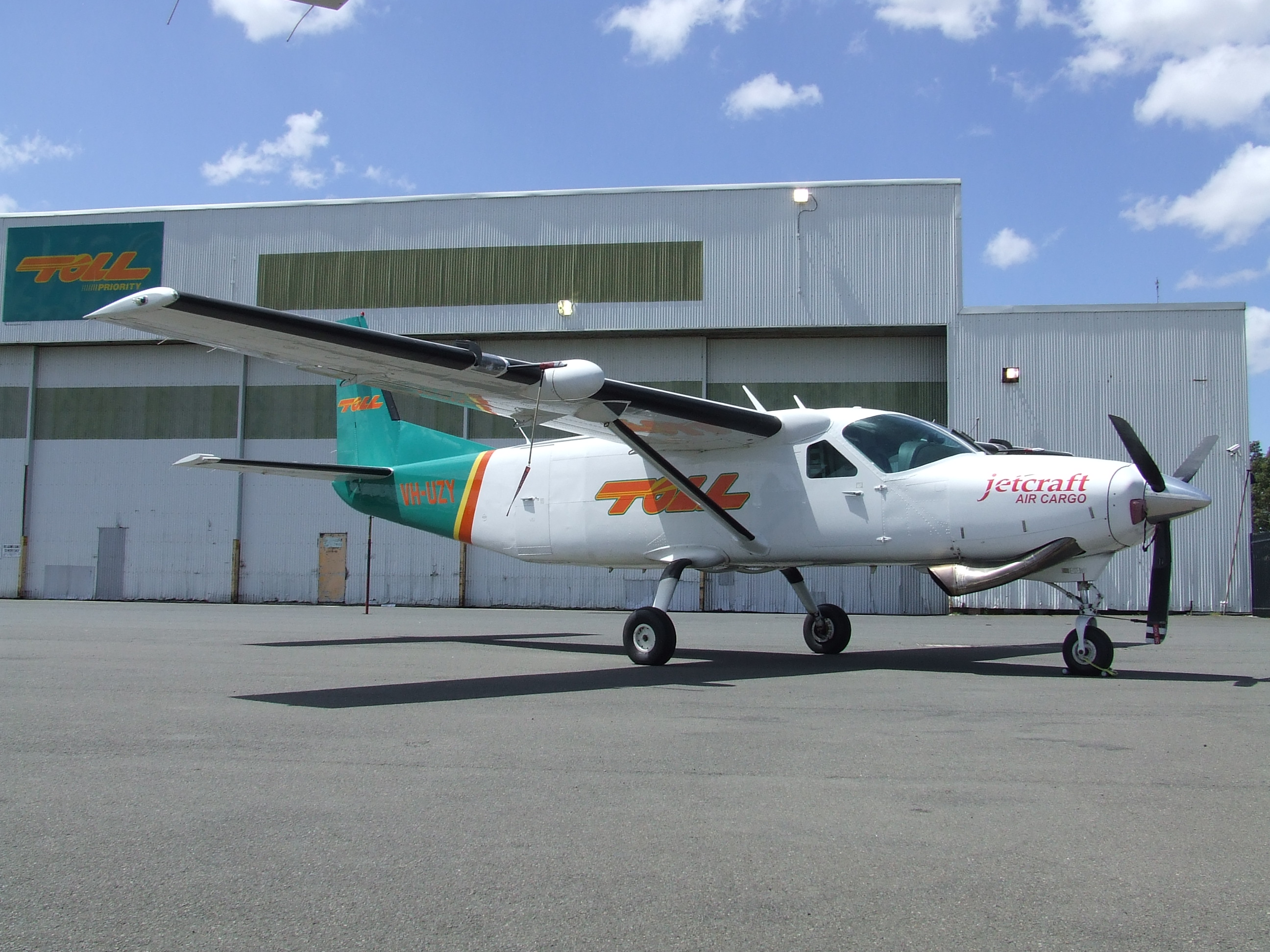 Jetcraft Aviation operate several Cessna 208B Grand Caravans on behalf of Toll Priority. VH-UZY is seen in front of Toll's freight sorting facility at Bankstown Airport in Sydney. Digital photo of VH-UZY taken at Bankstown Airport by YSSYguy on October 29 2006, uploaded for use in article about Jetcraft.